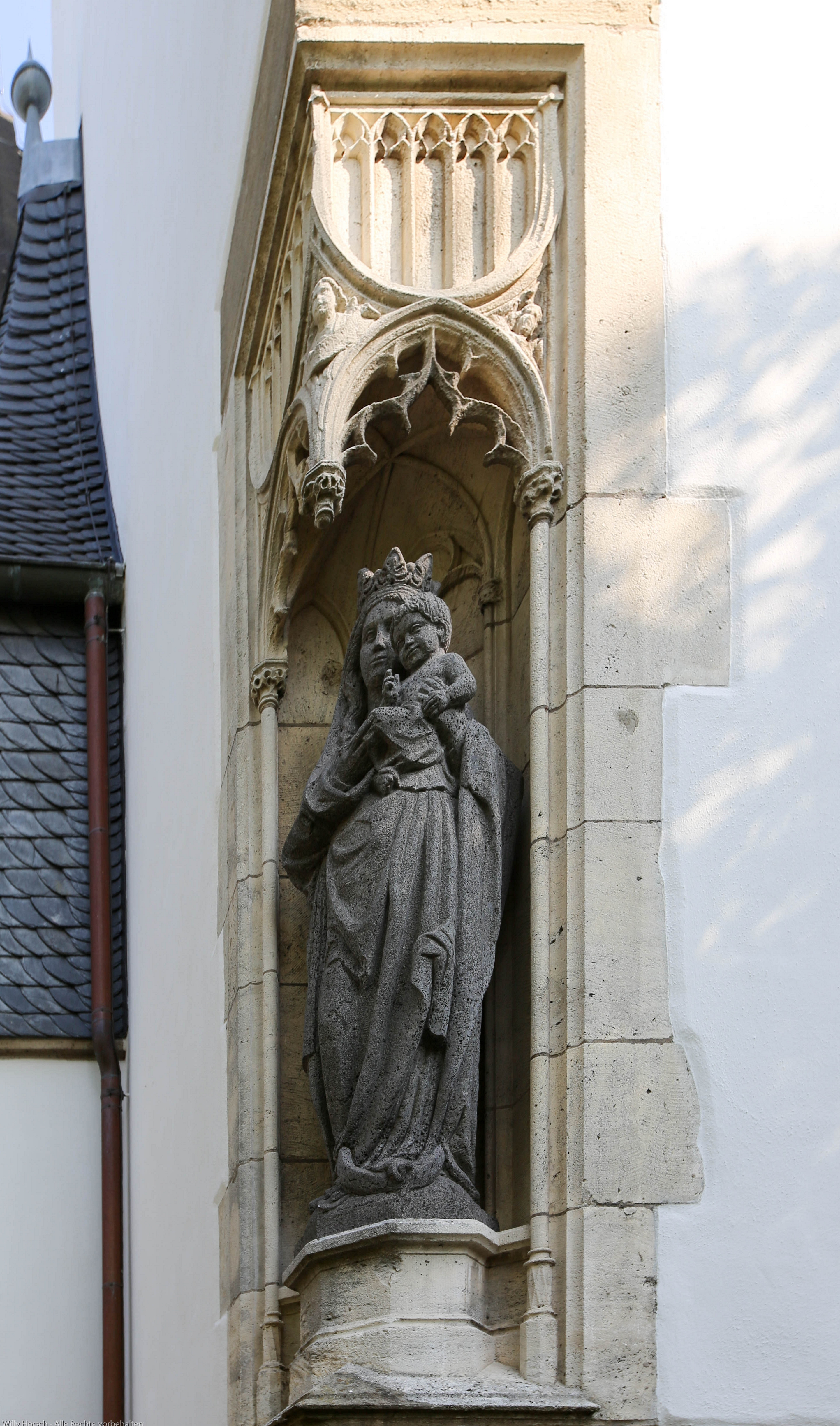 Catholic Church Seven Dolors of Our Lady. Uckendorf, Germany